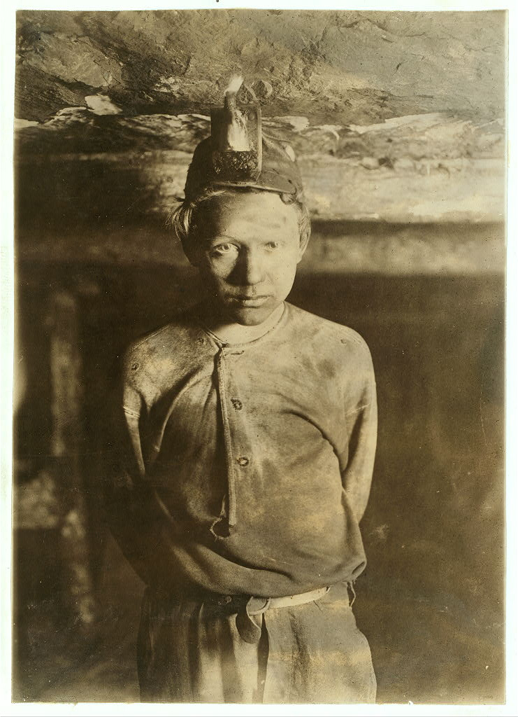 Trapper Boy, Turkey Knob Mine, Macdonald, W. Va. Boy had to stoop on account of low roof, photo taken more than a mile inside the mine. Witness E. N. Clopper. Location: MacDonald, West Virginia.